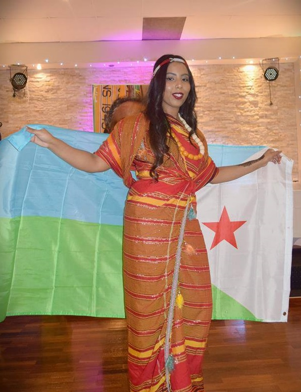 Djiboutian celebrating independence day in Australia.